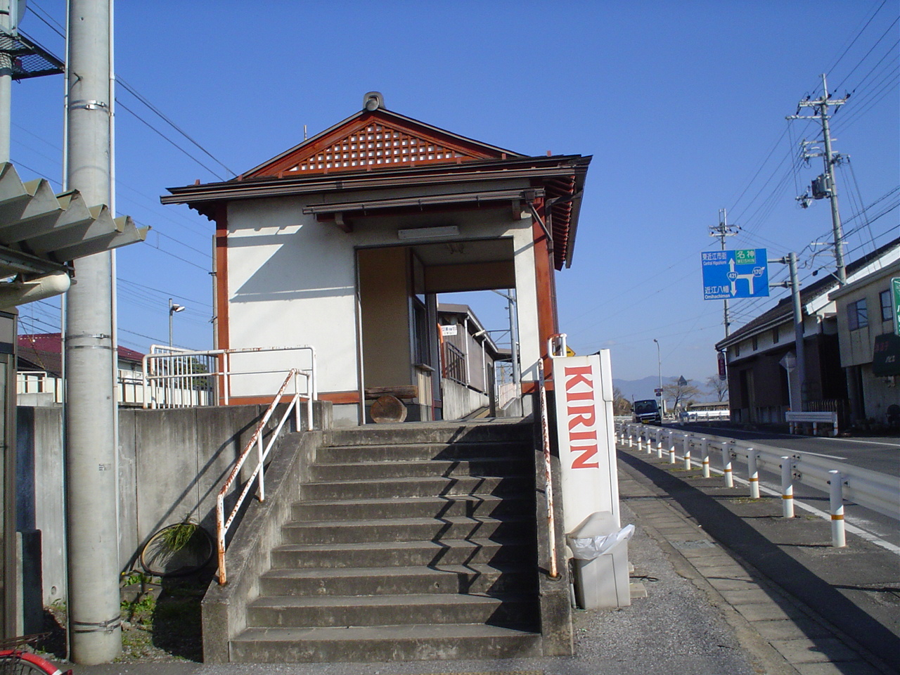 Ichinobe Station in shiga pref, japan